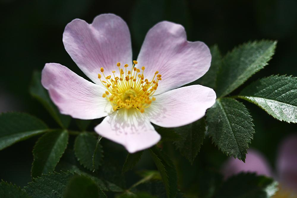 Dog Rose, Plants of Israel